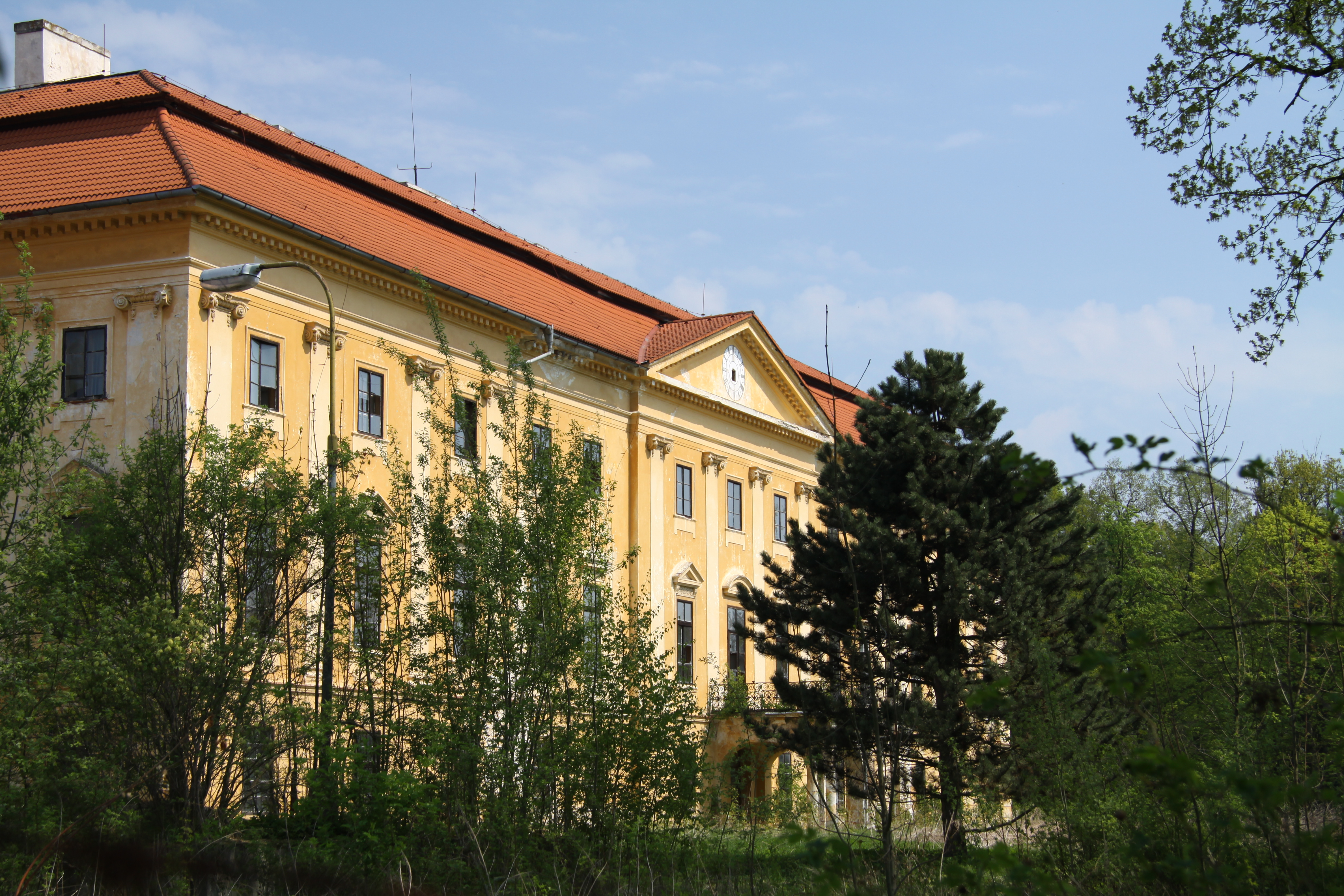 New Libějovice castle in Libějovice village, Strakonice District, Czech Republic